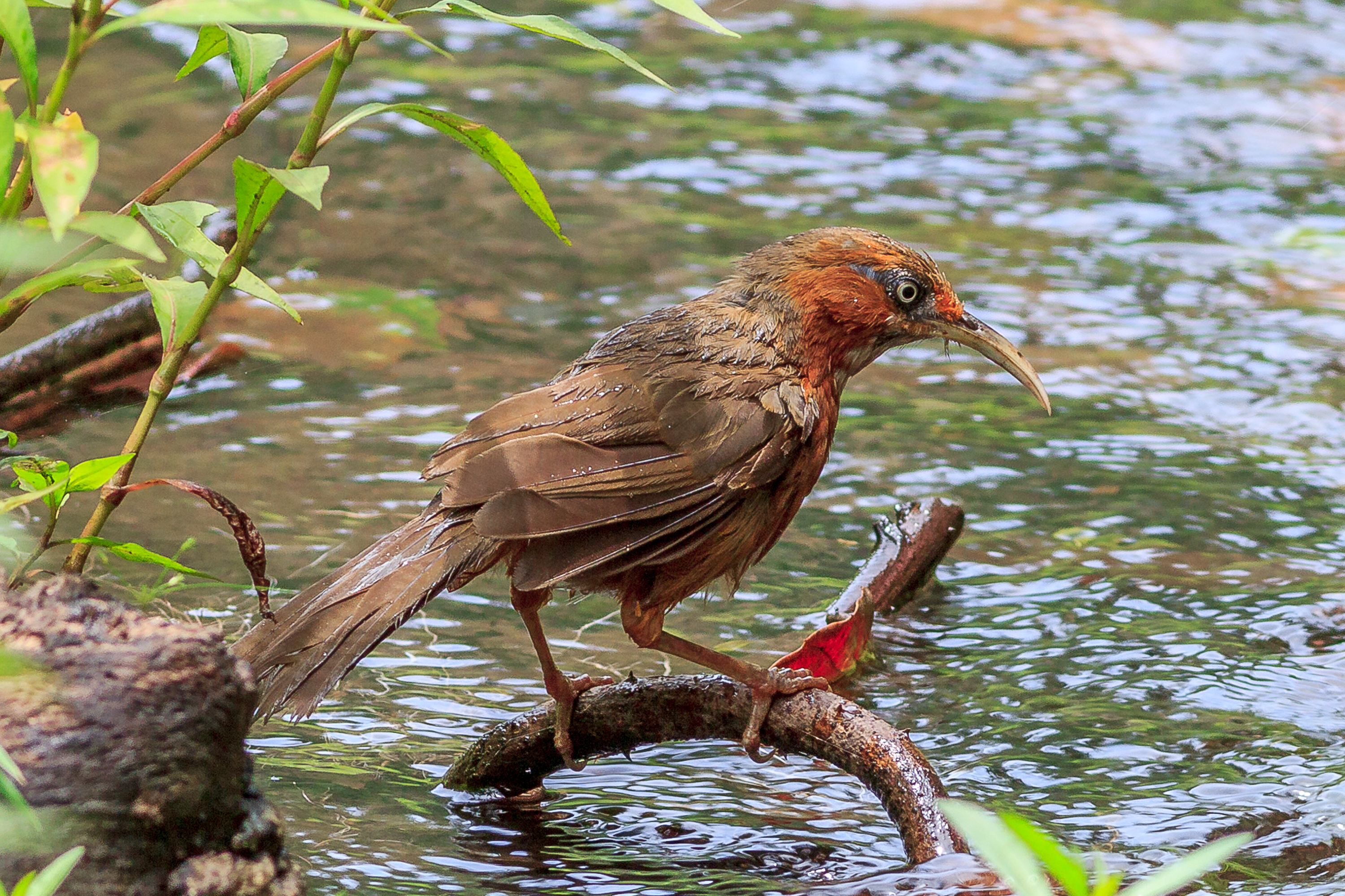 This is one of the elusive birds found in slopes of Indian Himalayas